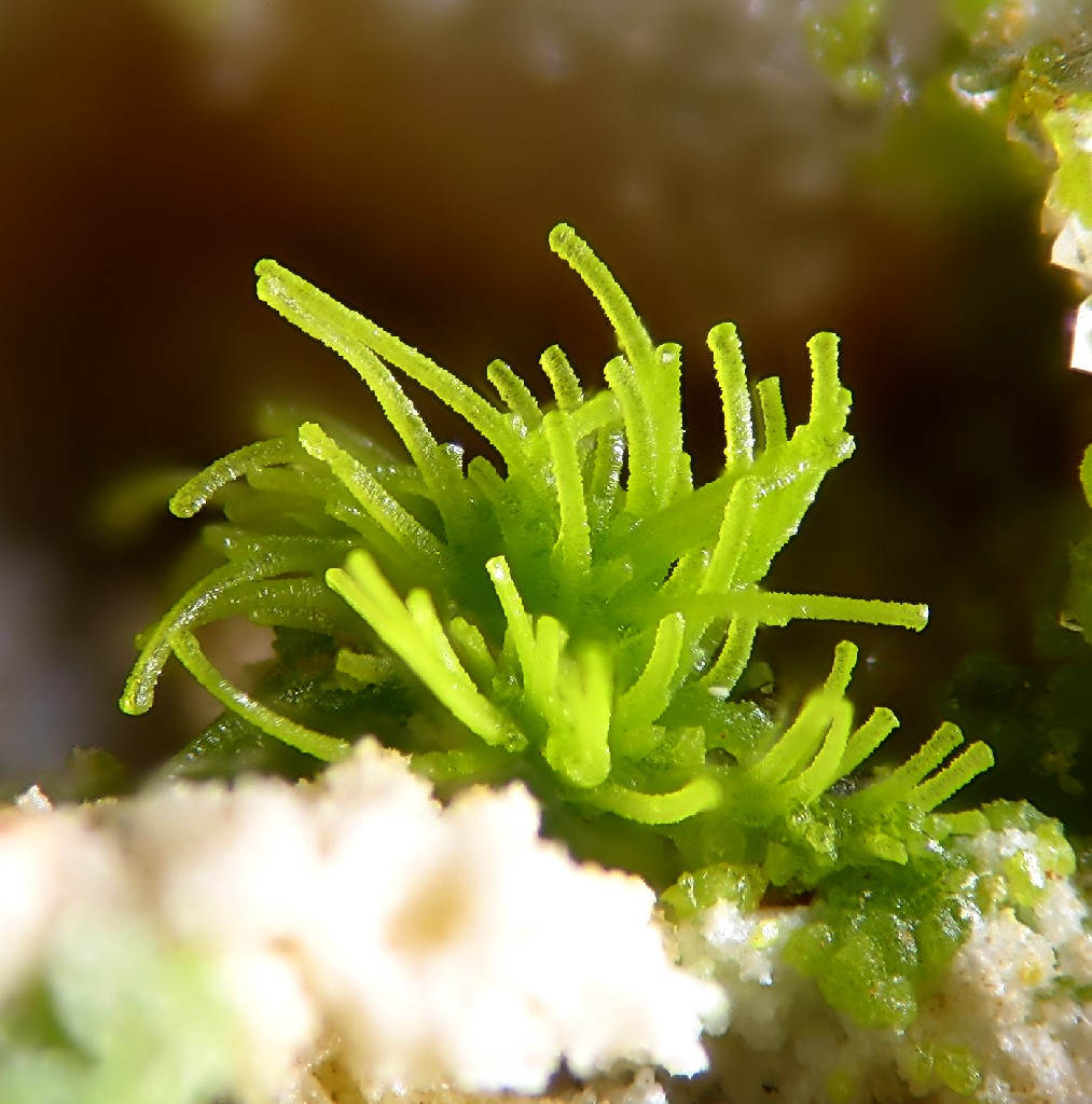 Emmonsite Locality: Moctezuma Mine (Bambolla Mine), Moctezuma, Municipio de Moctezuma, Sonora, Mexico (Locality at ) Picture width 3 mm. Collection and photograph Christian Rewitzer This Photo was Photo of the Day - 19th Apr 2008